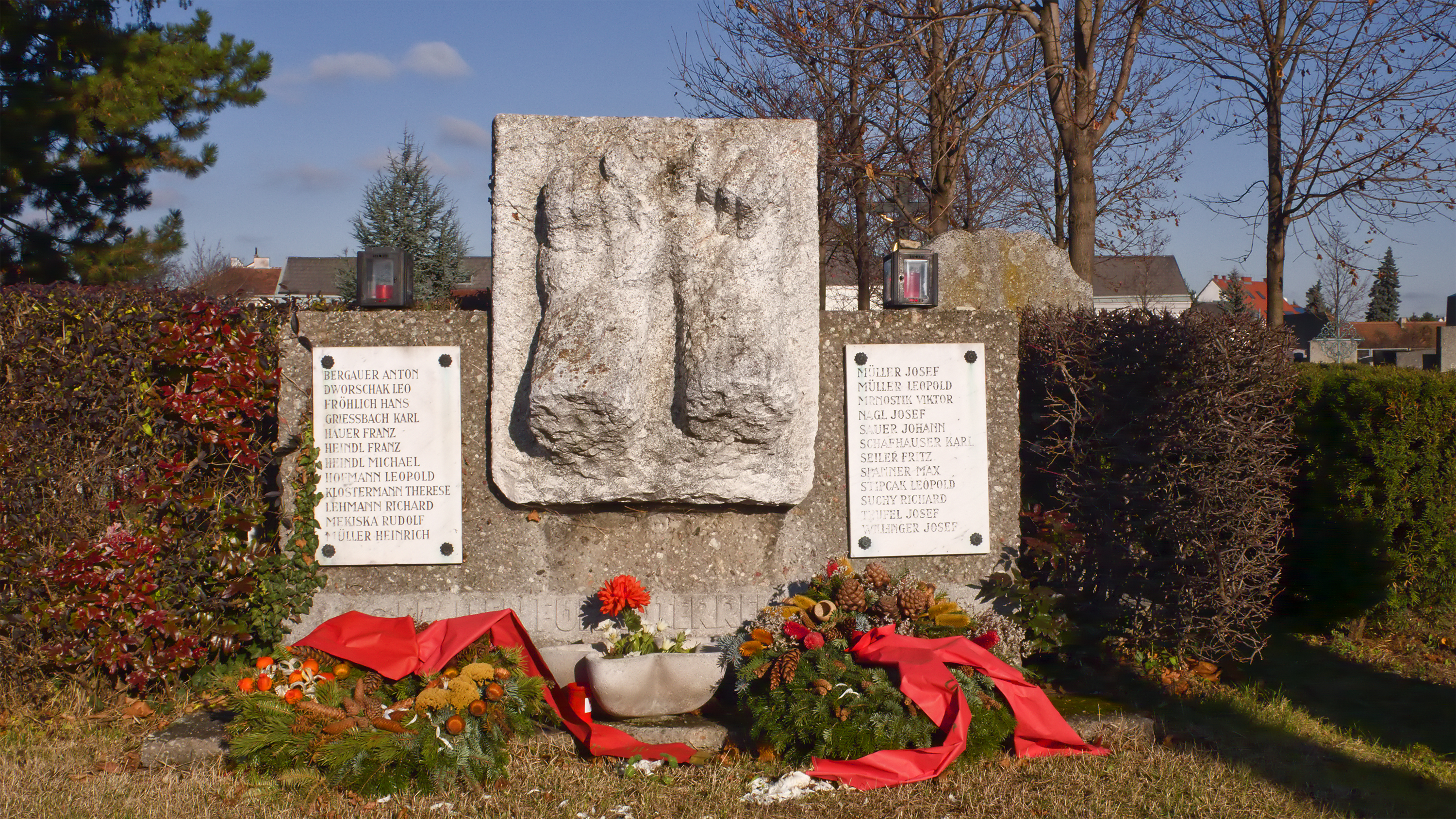 Vienna Liesing: Friedhof Atzgersdorf